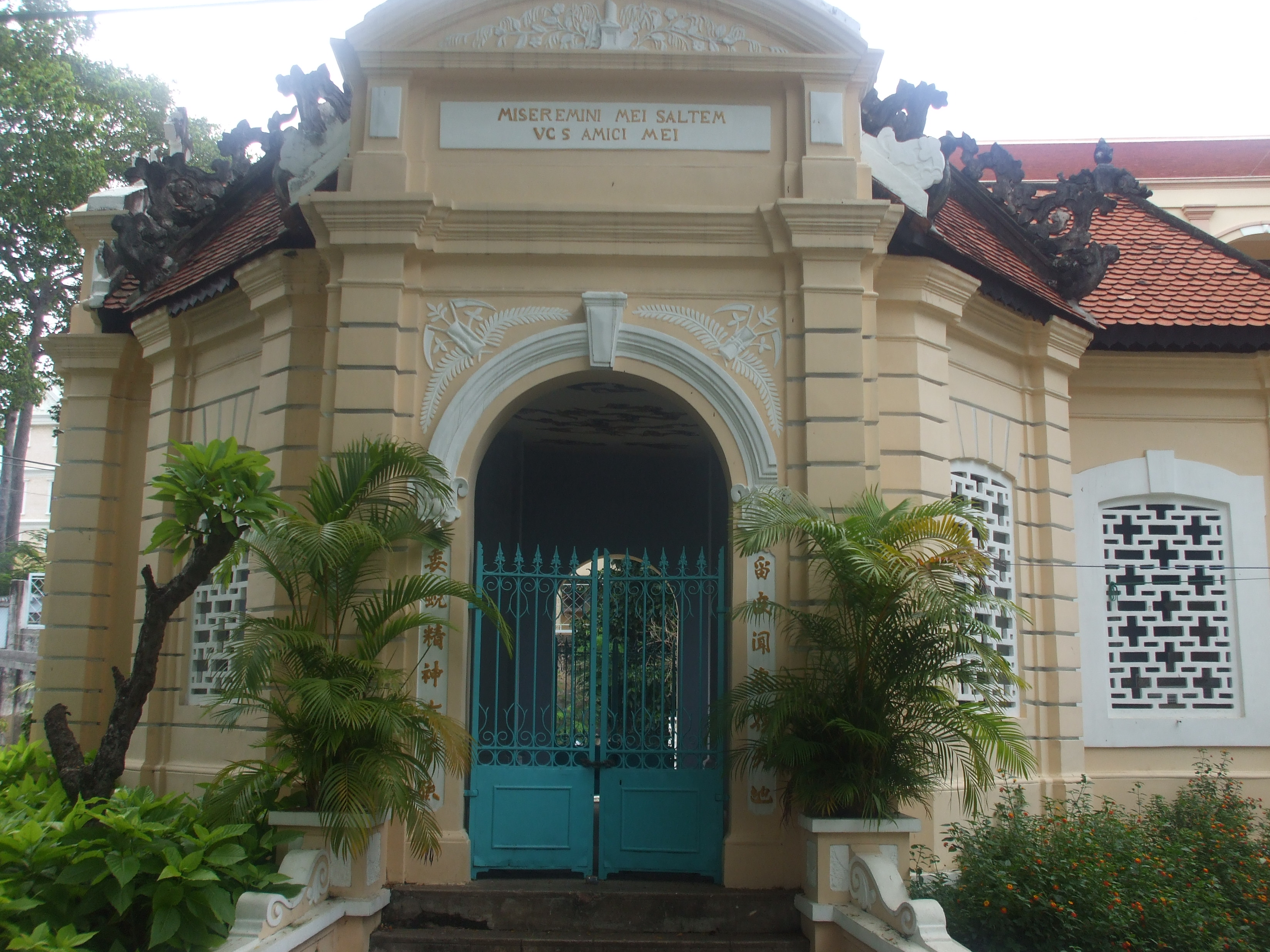 The grave of Truong Vinh Ky in Cho Quan Ho Chi Minh City, Vietnam, with engraved: "Miseremini Mei Saltem Vos Amici Mei" ("Pity me. You’re at least my friends.")